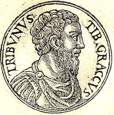 Tiberius Sempronius Gracchus was a Roman politician of the 2nd century BC and brother of Gaius Gracchus.